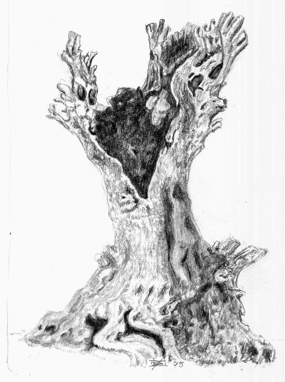 Own drawing - (pencil) enhanced in Photoshop